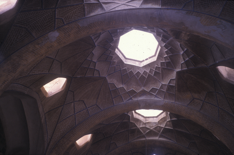 Bazaar's dome ceiling with oculi — at Kashan saghfh, in Iran..